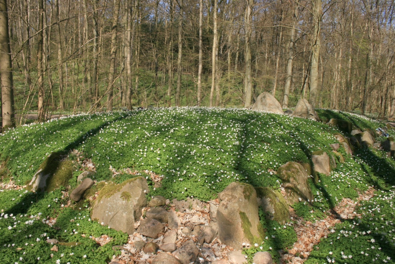 Long dolmen from older neolithicum (in use between 3.500 and 3.100 B.C.) at Hørret Forest south of Århus, Denmark.